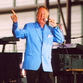 Neil Sedaka - July 2005 Photo by Alan C. Teeple User:ACT1